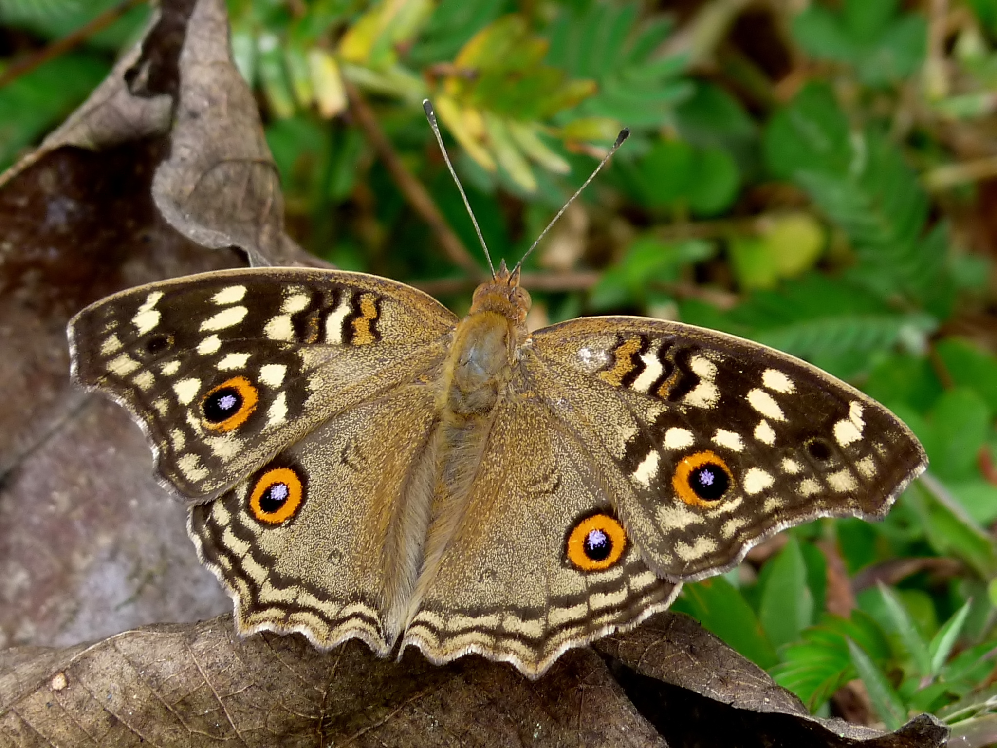 Junonia lemonias, also known as the Lemon Pansy, is a common nymphalid butterfly found in South Asia. It is found in gardens, fallow land, and open wooded areas. It is brown with numerous eye-spots as well as black and lemon-yellow spots and lines on the upperside of the wings. The underside is a dull brown, with a number of wavy lines and spots in varying shades of brown and black. There is also an eyespot on the lower side of the forewing. The wet and dry season forms differ considerably in coloration and even shape. In the wet season form the markings are distinct and vivid and the wing shape is a little more rounded. In the dry season form the markings are obscure and pale especially on the underside and the wing margin is more angular and jagged. This helps it camouflage in the dried leaf-litter. The Lemon pansy is a very active butterfly and can be seen basking with its wings open facing the sun. It sits very low to the ground and can be approached easily. It feeds with its wings half open. It is a fairly strong flier and flies close to the ground with rapid wingbeats and often returns to settle back in the same spots. Taken at Kadavoor, Kerala, India.